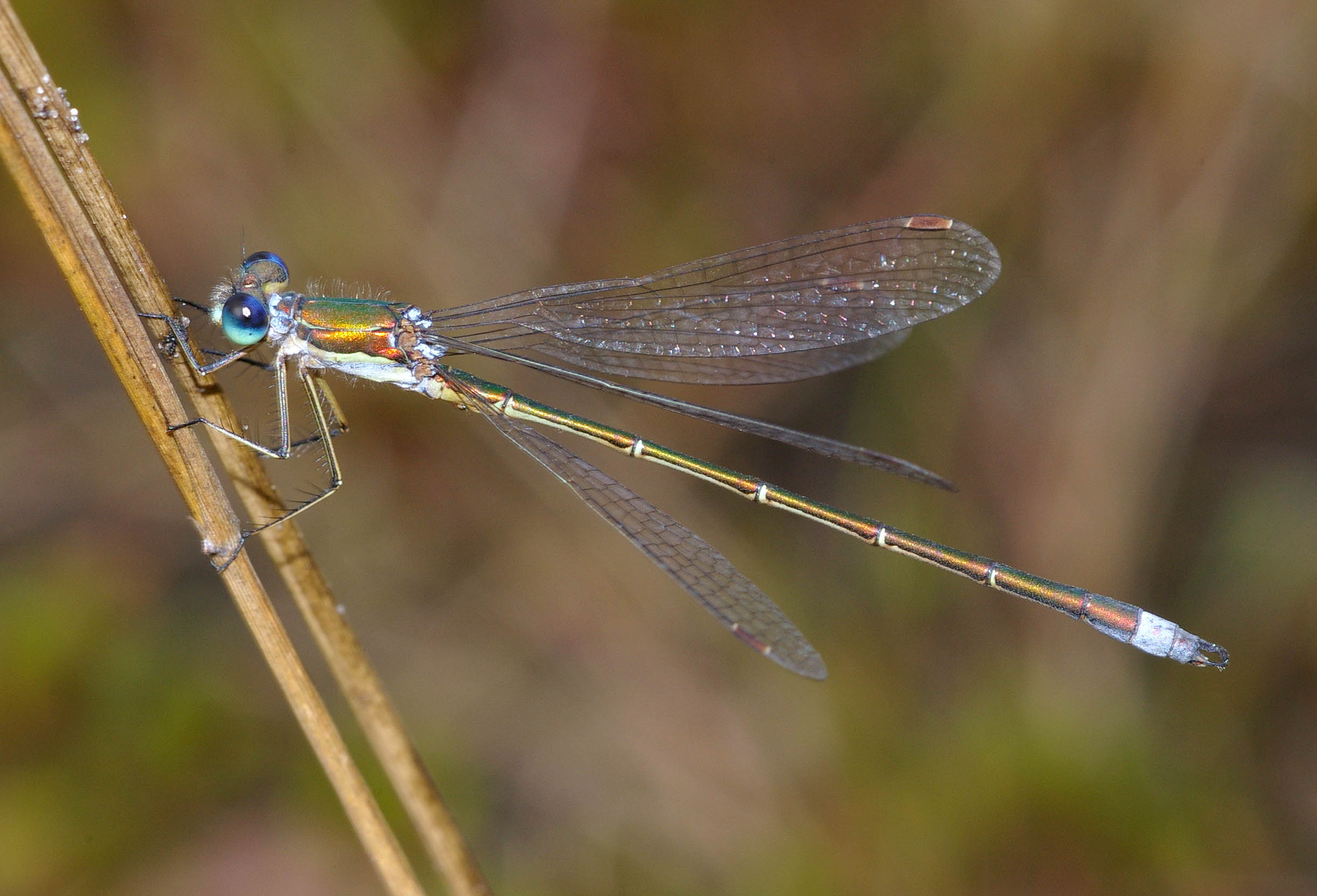 The damselfly Lestes virens vestalis; a male specimen.